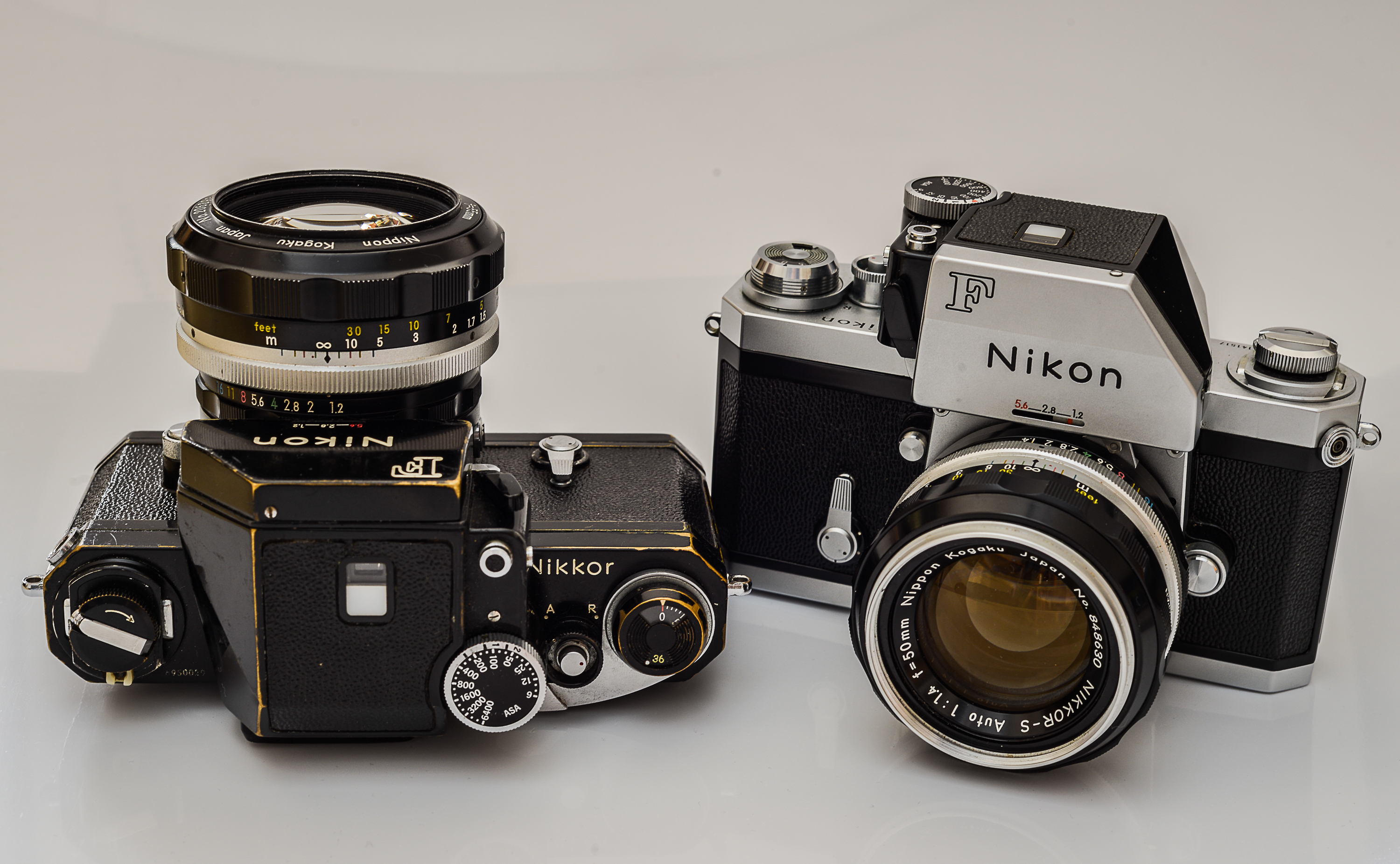 Nikkor F an Nikon F Cameras in both common colours. Both sport the Photomic FTN finder. the "Nikkor F" is an early version for the german market to prevent problems with the german brand "Zeiss Ikon".